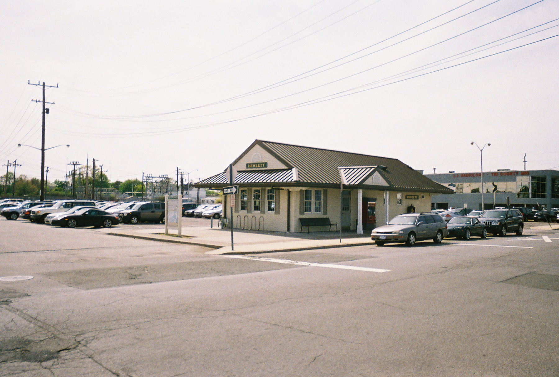 New Hewlett (LIRR station) house diagonally across from the original Southern Railroad of Long Island depot in 1869. Exactly what will happen to the old station house is unclear to this photographer, but considering the fact that it's the oldest surviving railroad station on Long Island, hopefully it will be preserved.